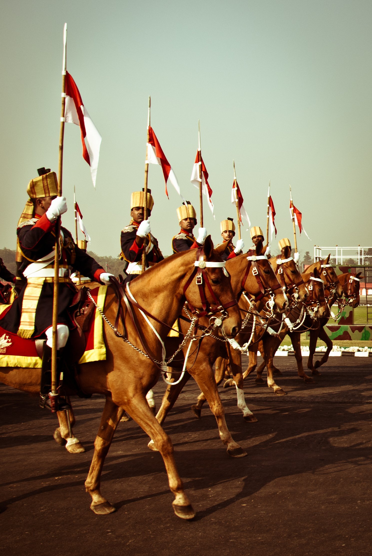 Troops and horses of the Indian Army's 61st Cavalry regiment